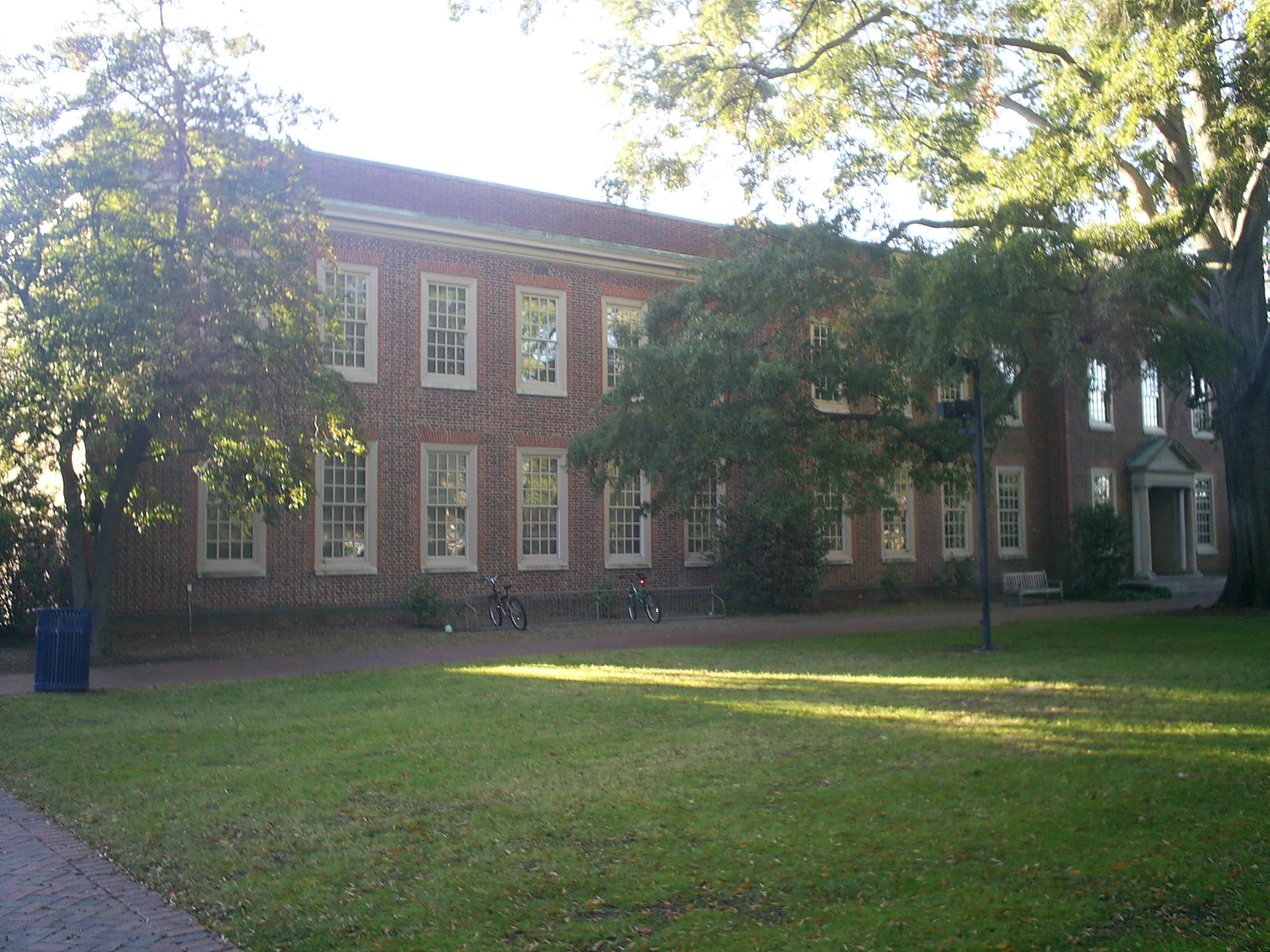 Campus of Old Dominion University